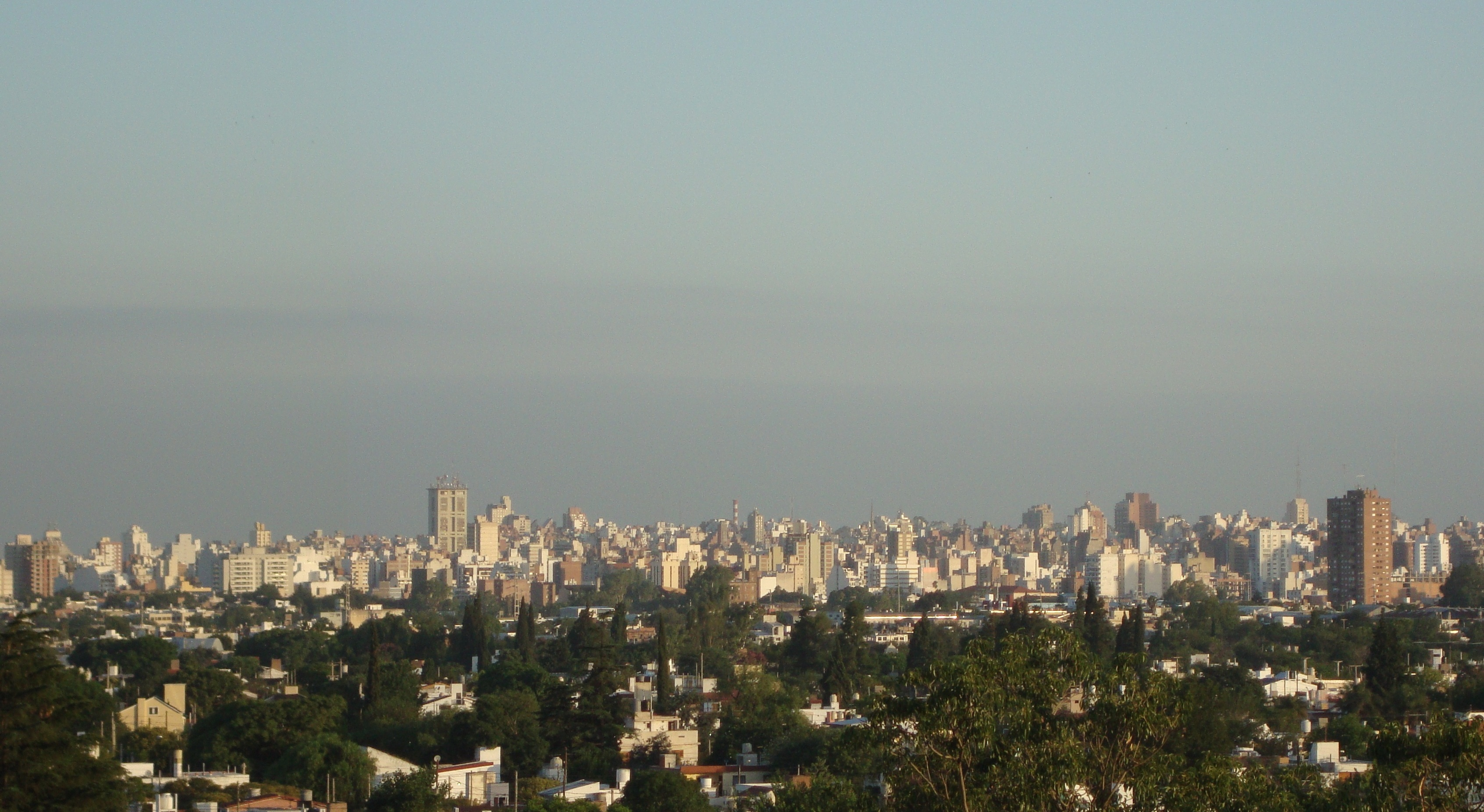 Panorama of downtown Cordoba, Argentina. Picture taken from Naciones park.